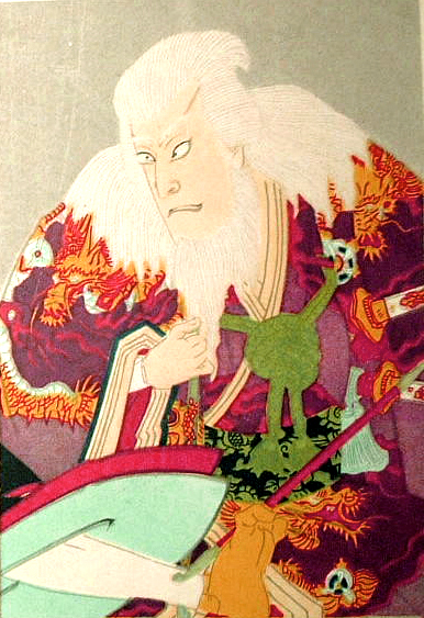 Shikan Nakamura IV as Hige no Ikyu in May 1896 production of Edozakura at Tokyo Kabukiza, portrayed by Kunichika Toyohara.